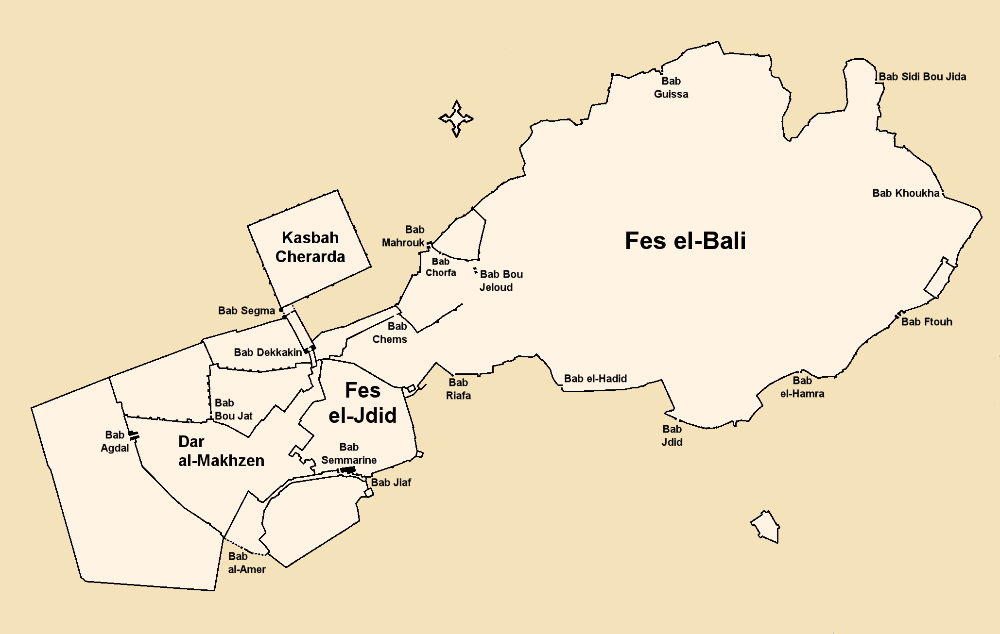 A first attempt at making a map of all the documented gates of Fes. Note: This was made by using the file "Carte Enceintes de Fes.PNG" by user:Omar-toons as a base for the current outline of the walls. I made minor modifications to the wall outlines to be more consistent with what people would actually see today. The location and names of the gates were determined principally with the help of two books: Le Tournean (1949), "Fès avant le protectorat"; and Gaudio (1982) "Fès: Joyau de la civilisation islamique". I also used my own experience/memories of visiting most of the locations to help. A few minor, and arguably insignificant, gates are not shown (e.g. Bab Ziat) as they are not named in any published sources I have seen. There are many minor and major openings and gaps in the walls that are used for traffic but which don't correspond to any particular historic gates.